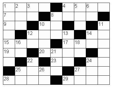 Sample Japanese-style crossword grid